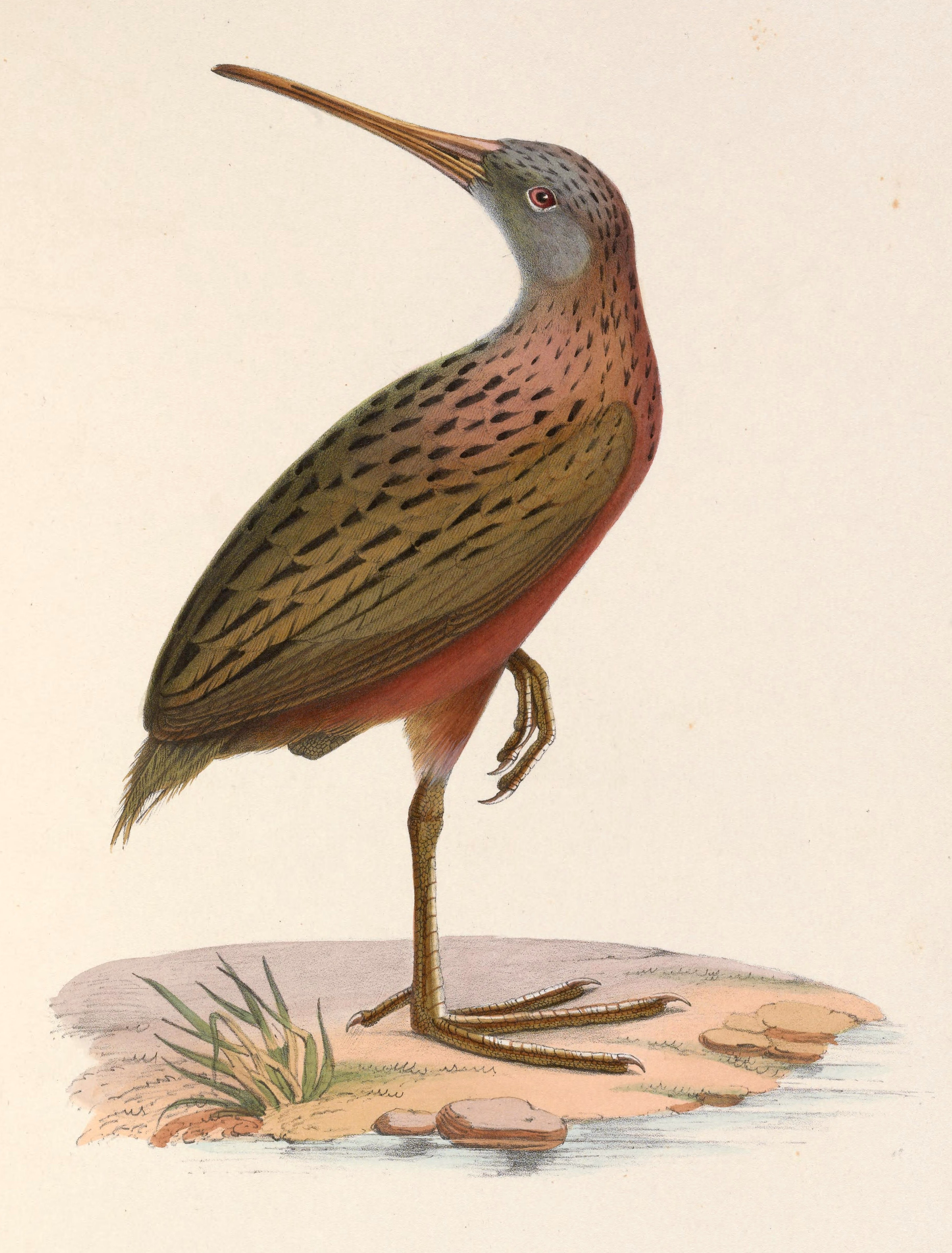 Biensis typus = Rallus madagascariensis (Madagascar Rail)